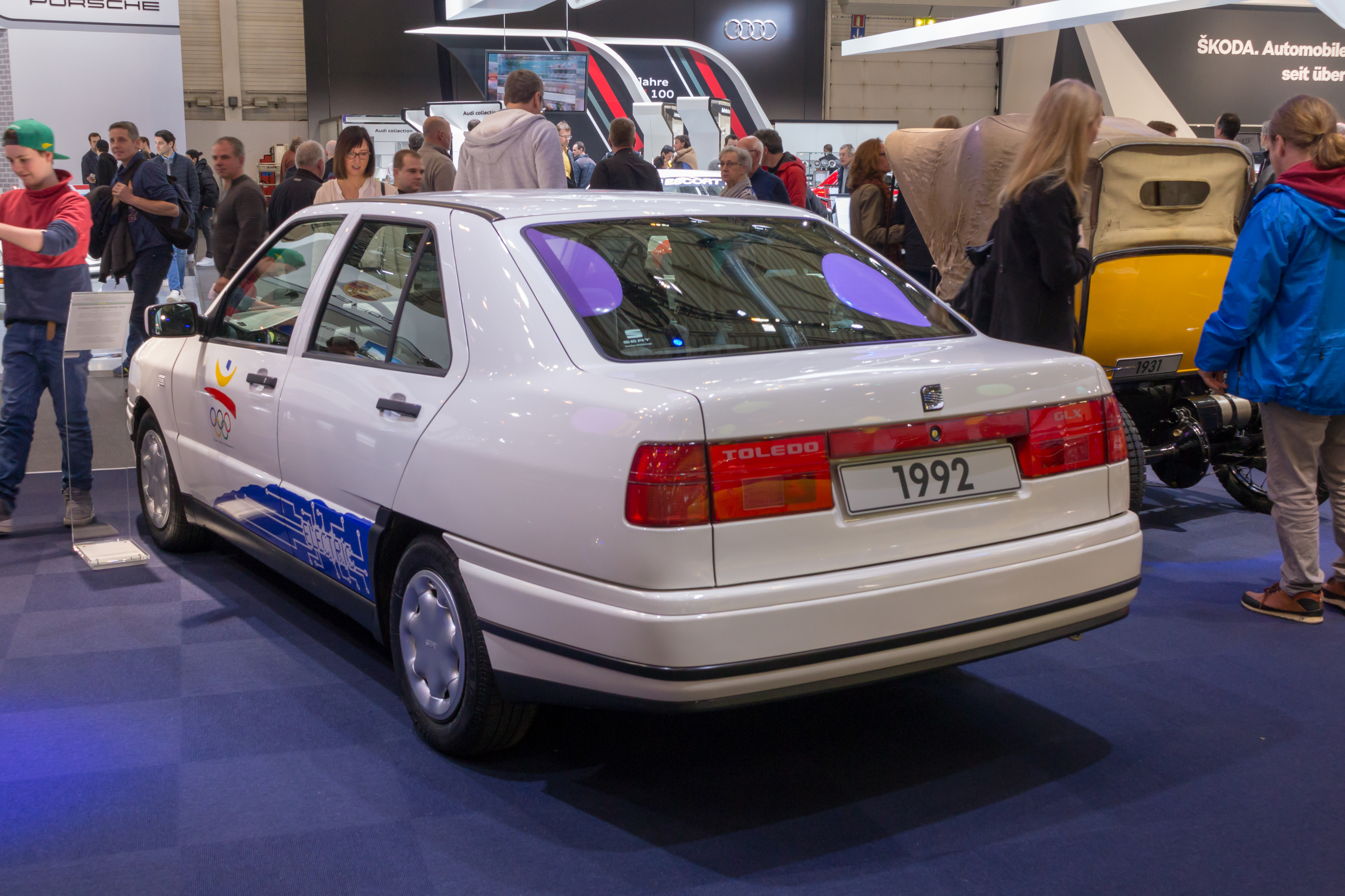 Seat, Techno-Classica 2018, Essen